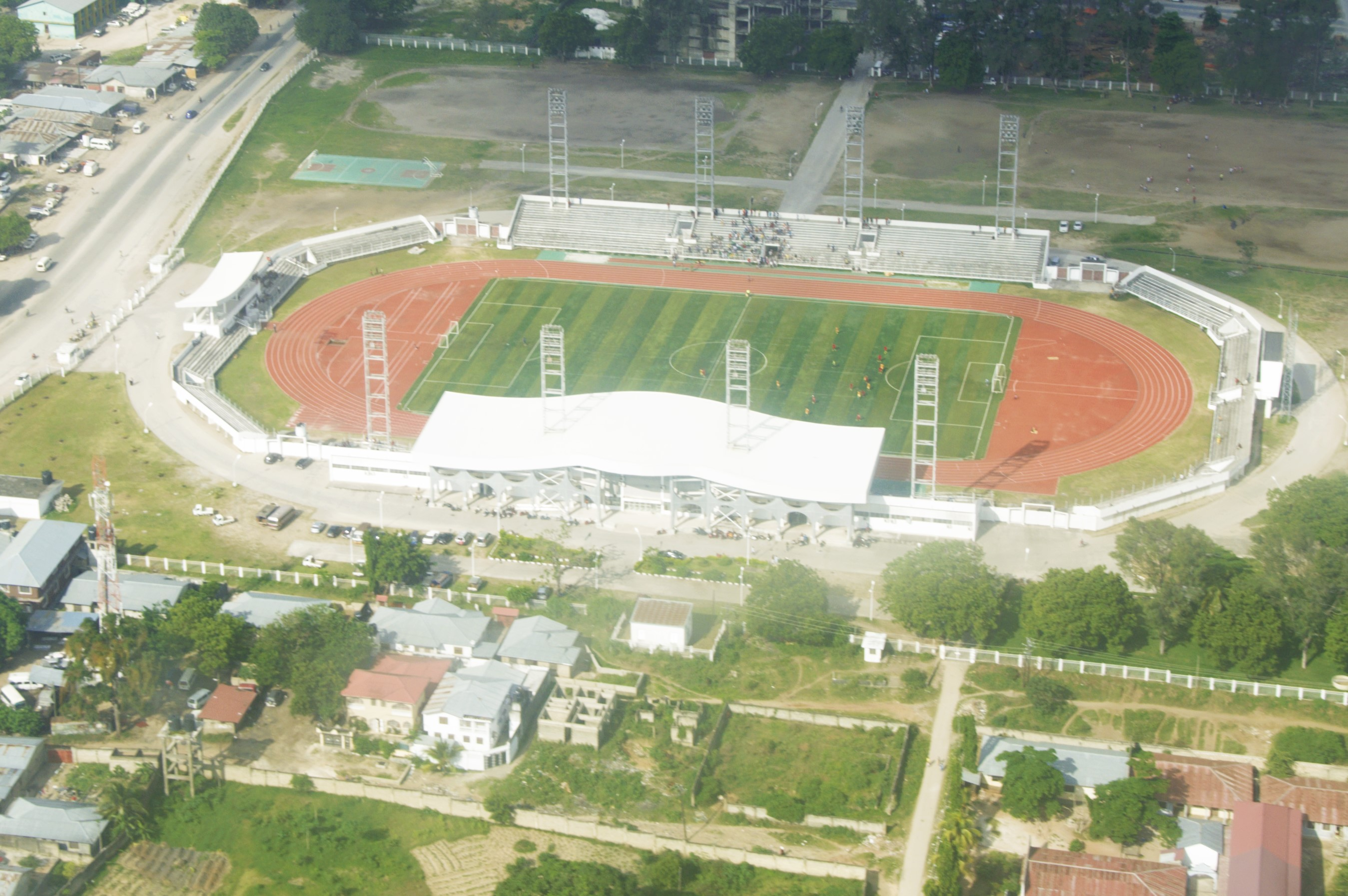 A bird's view of Amaan Stadium in Zanzibar. This Photo has been taken by Prof. Chen Hualin